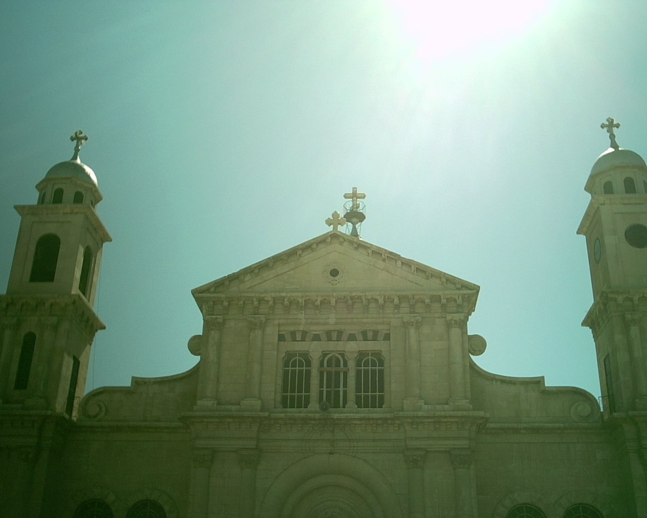 Holy Cross Church, Damascus, Syria.